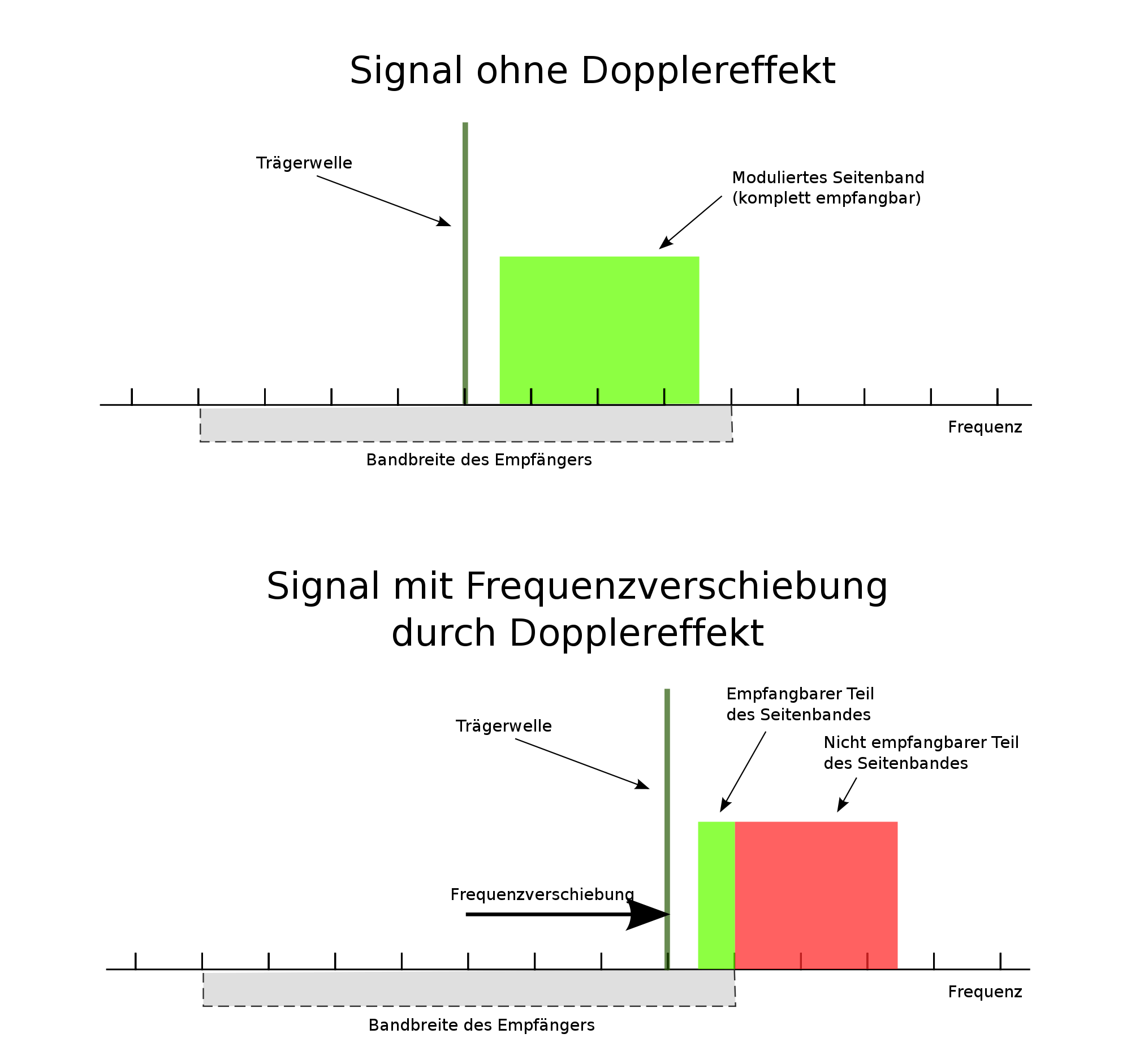 Illustration of Cassini's receiver fault (german)